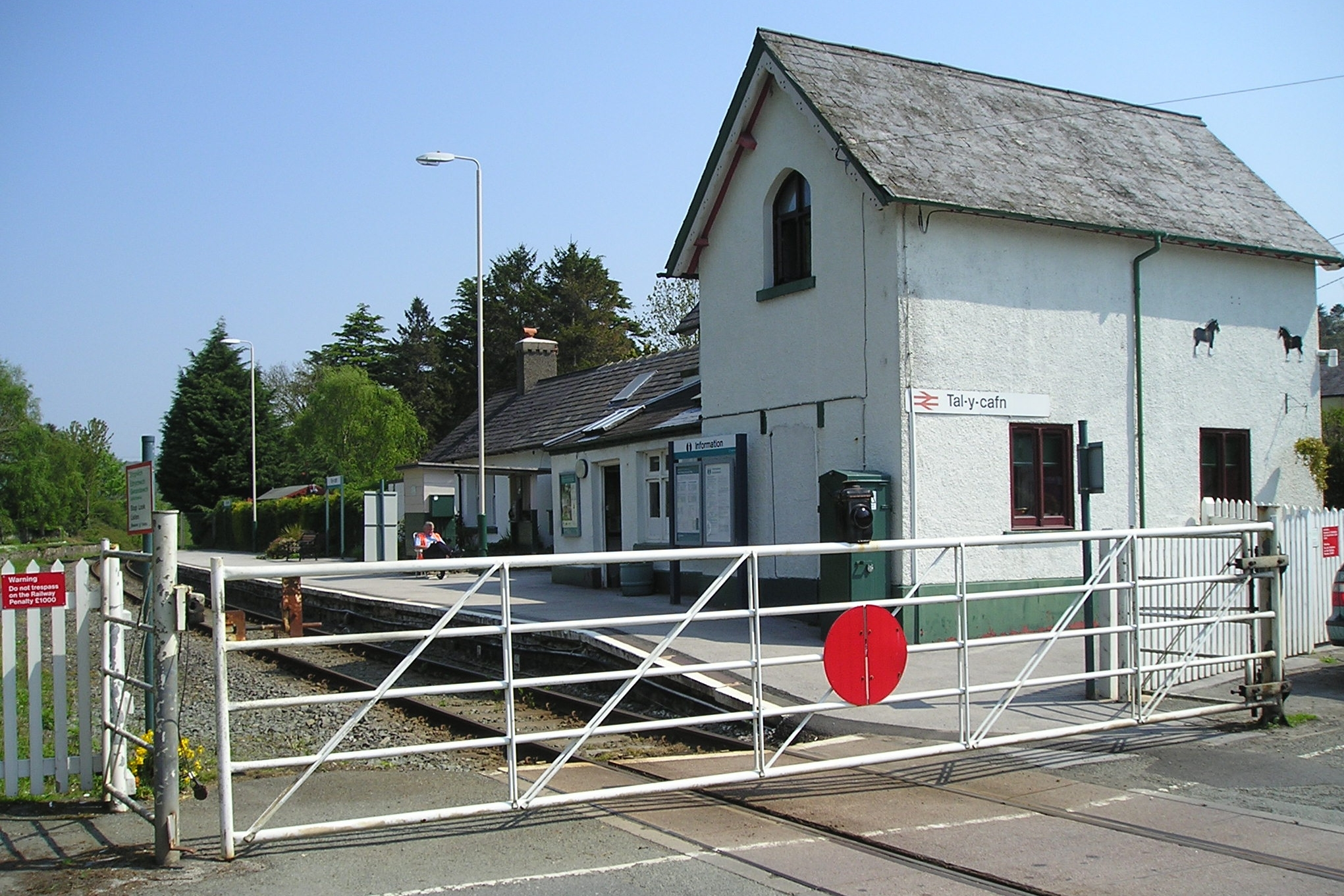 Tal-y-Cafn railway station